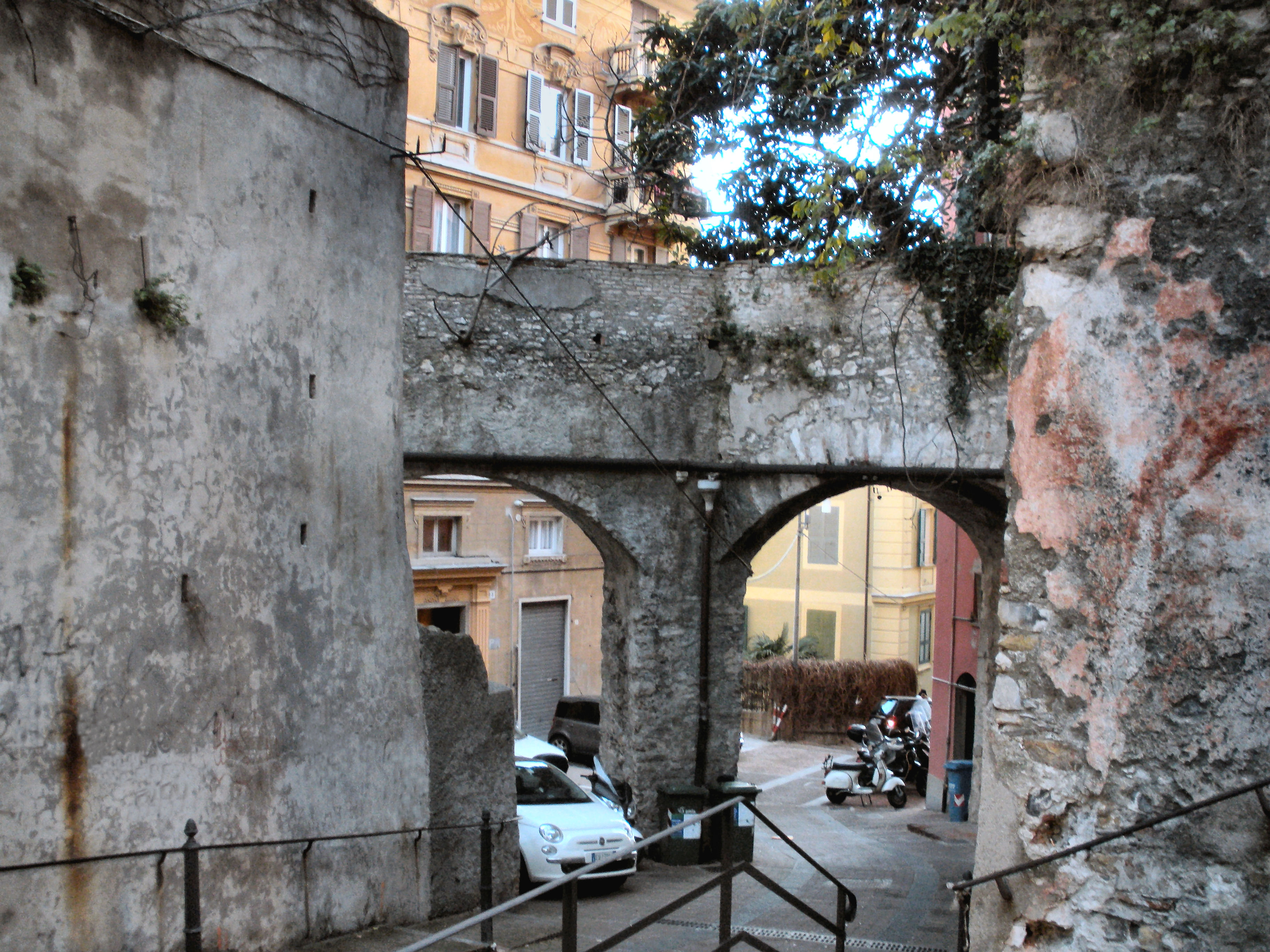 Genoa (Italy), quarter of Castelletto, canal bridge of historical acqueduct